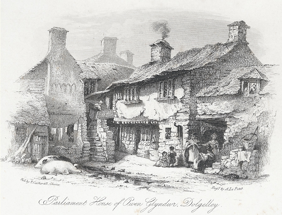 Owen Gledwr's Parliament House 1840